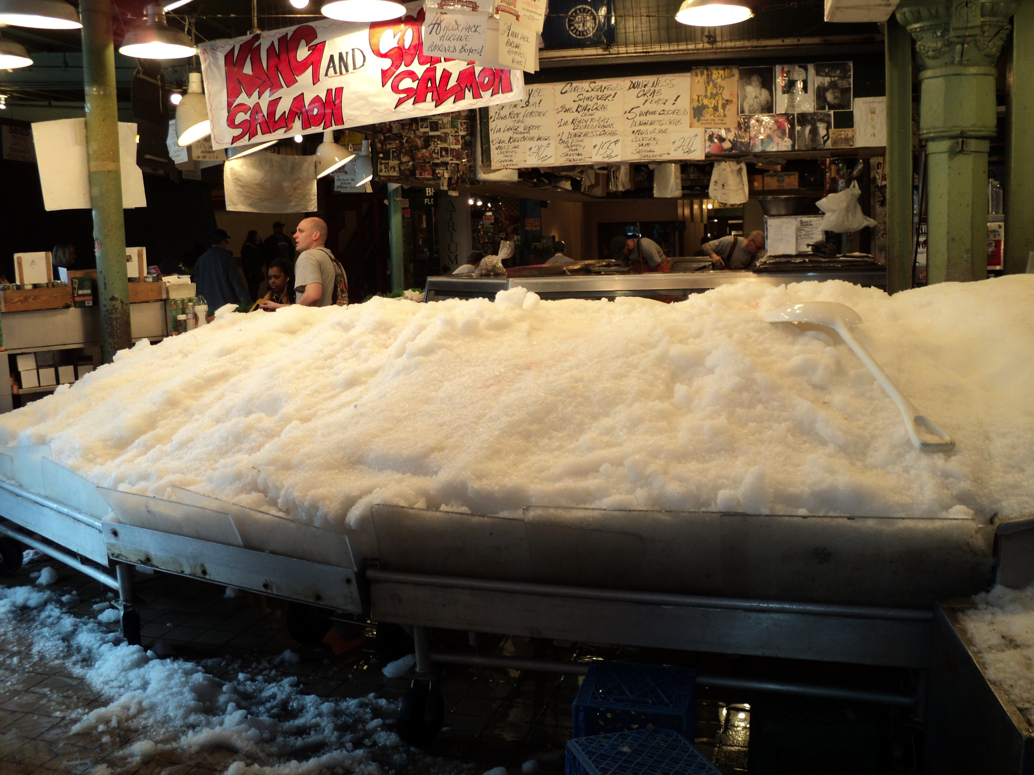 View of the clean-up at Pike Place Fish Market, evening, Pike Place Market, downtown Seattle, Washington.